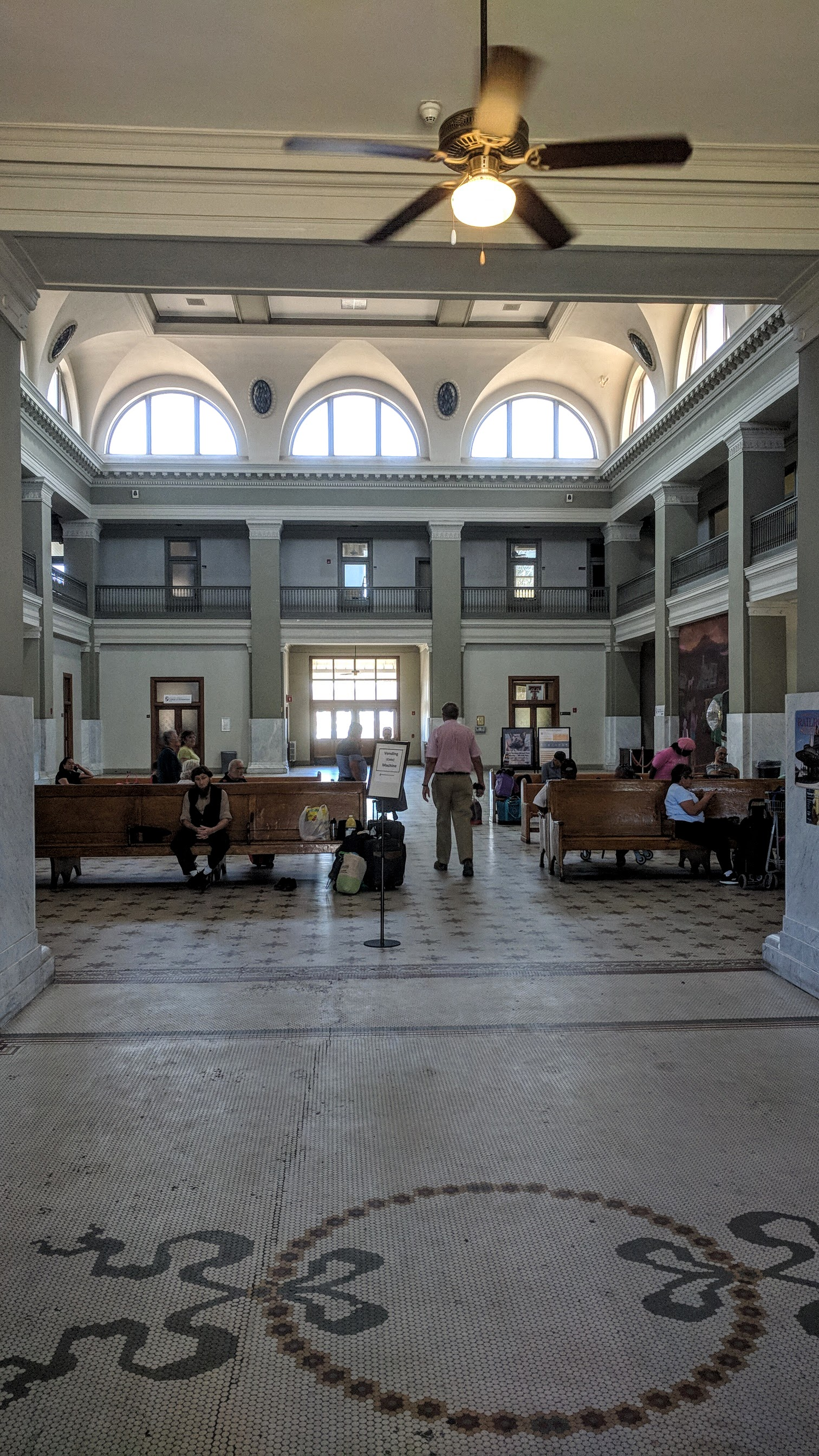 El Paso Union Depot interior view, showing the classic tile floor and large waiting room